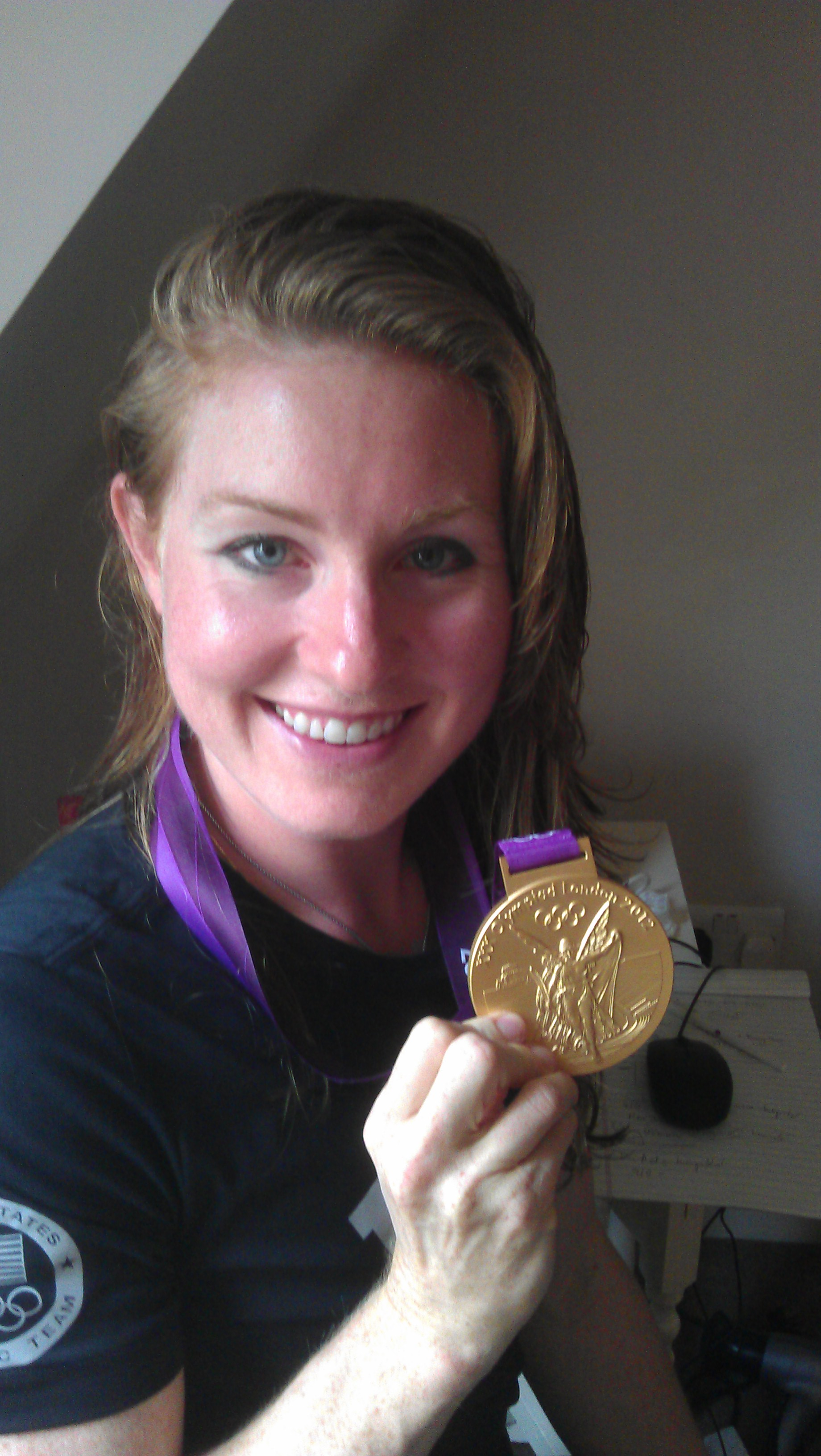 Caroline Lind Gold 2012 Other information Women's 8 2012